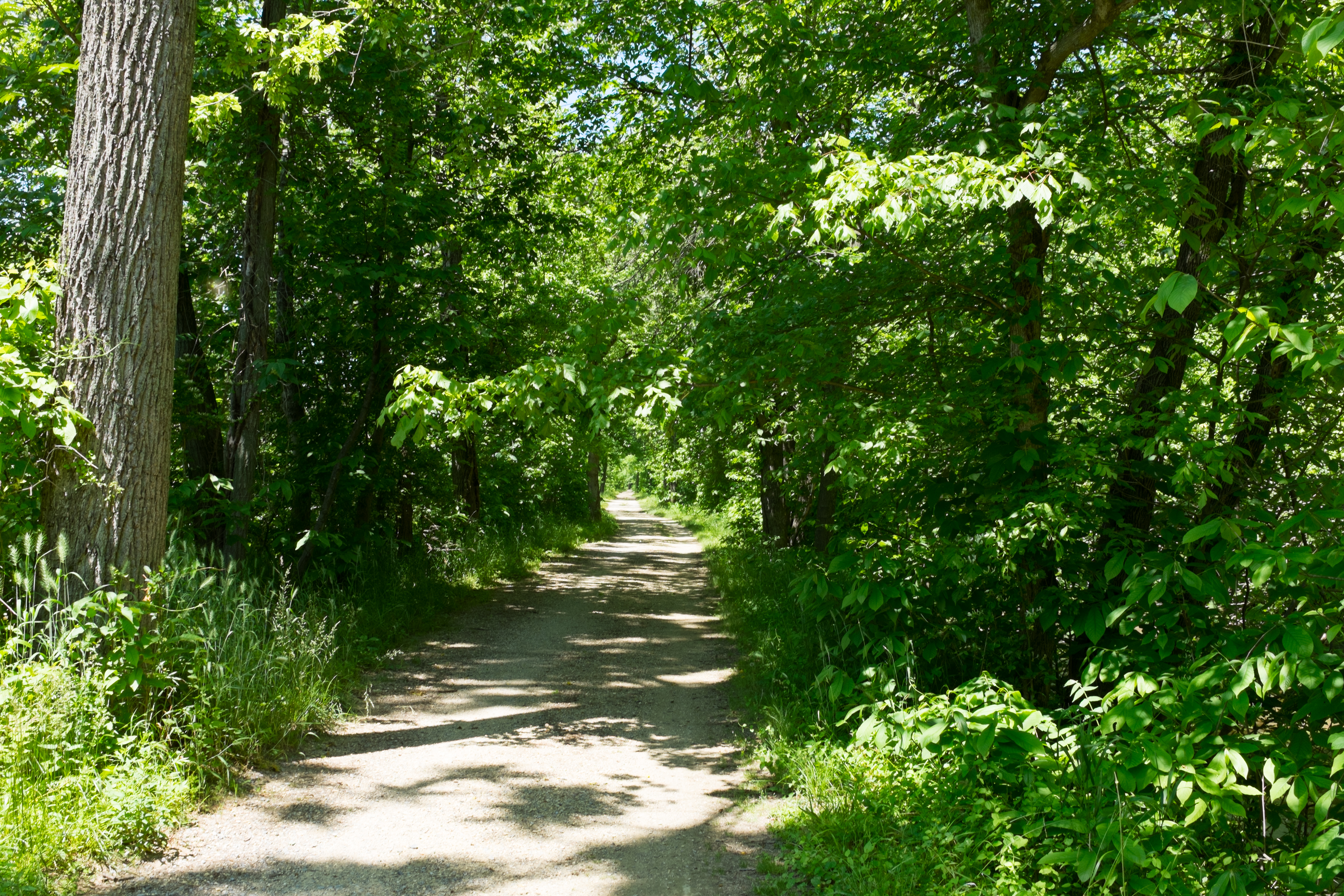 House Falls Canal (Patowmack Canal) also called "Long Canal" which was reused for the Chesapeake and Ohio Canal in this area. This is the feeder level between Goodheart's Lock (#34) and Dam No. 3 / Lock 35. This is just above the 62 Mile mark. This spot is probably Section No. 112 on C & O canal construction records.